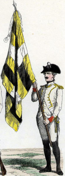 Régiment de Perche ensign uniform in 1789.